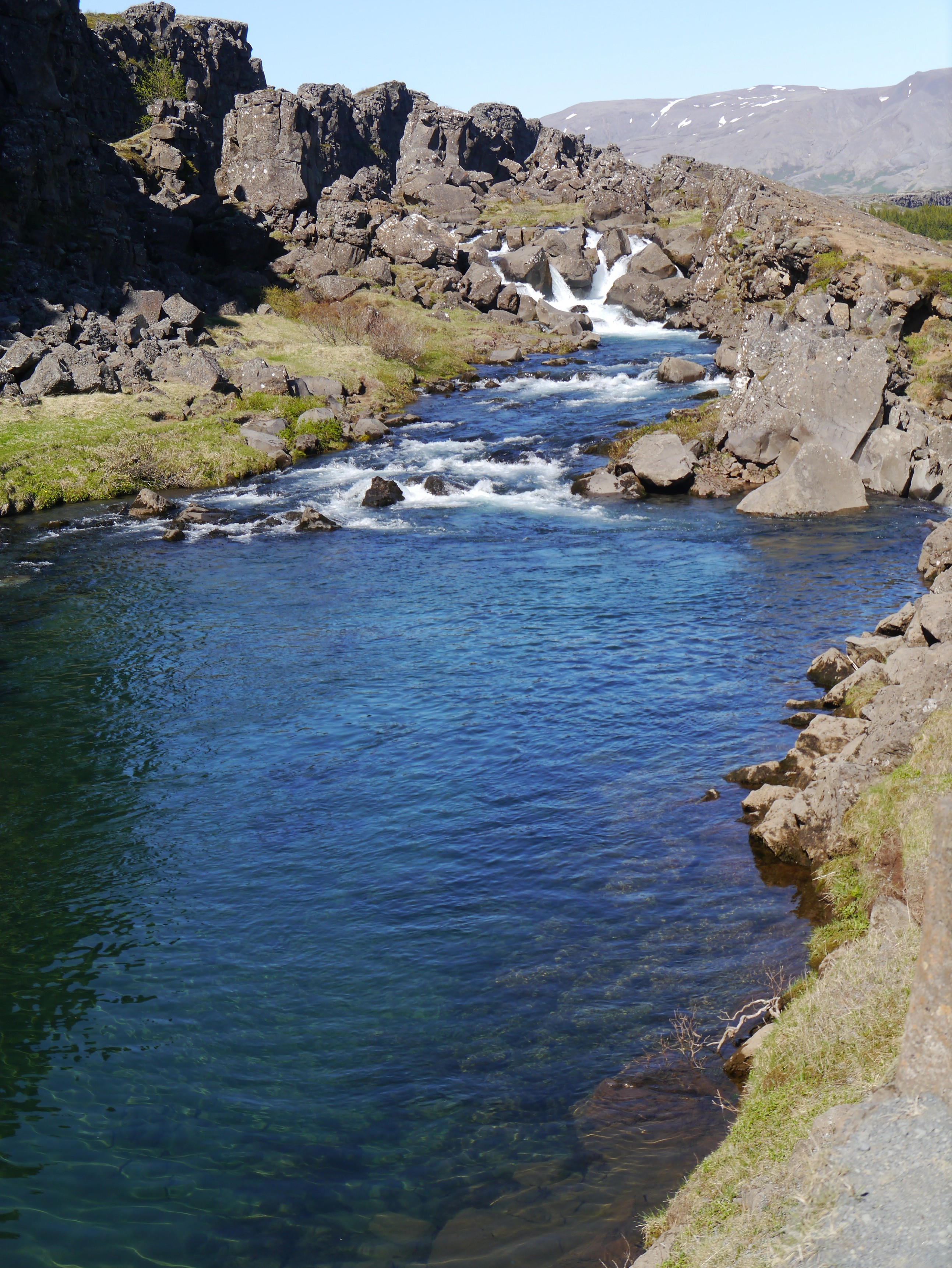 here the Eurasian and the North American Continental Plate meet each other at Allmanagjá Canyon, Thingvellir National Park